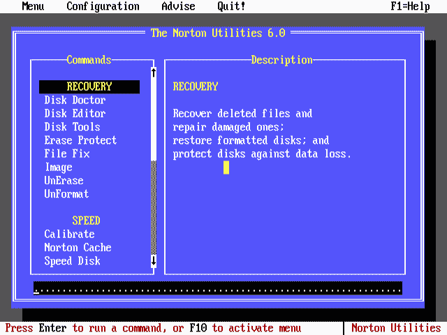 Sample screenshot of the Norton Utilities 6.0 opening screen, created using DOSBox.